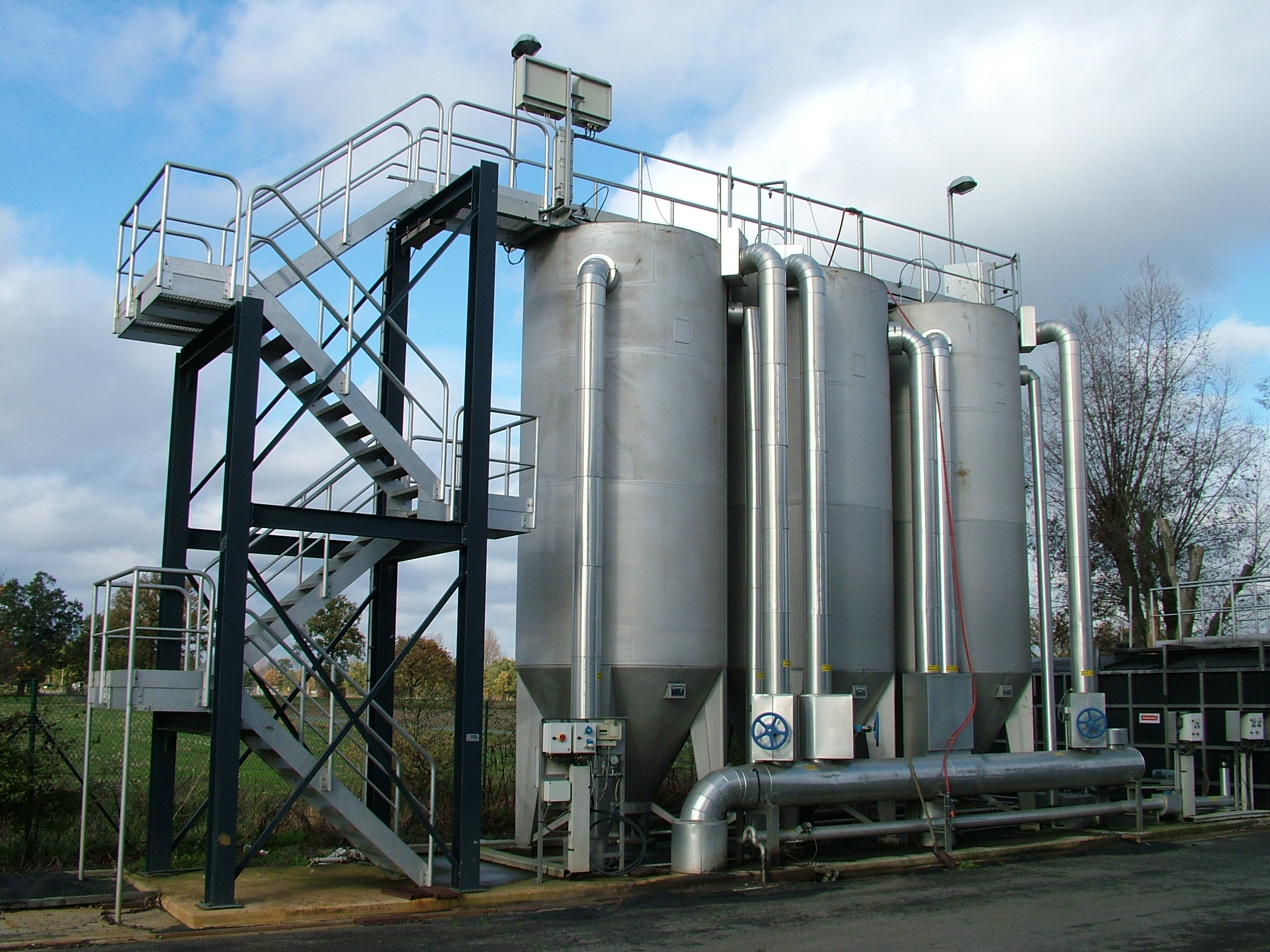 Sandfiltration (Dynasands) at WWTP Bree, Belgium